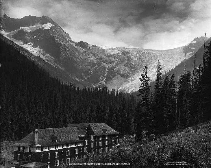 Glacier House and Illecillewaet Glacier, BC, 1909, William McFarlane Notman, Silver salts on glass - Gelatin dry plate process 20 x 25 cm